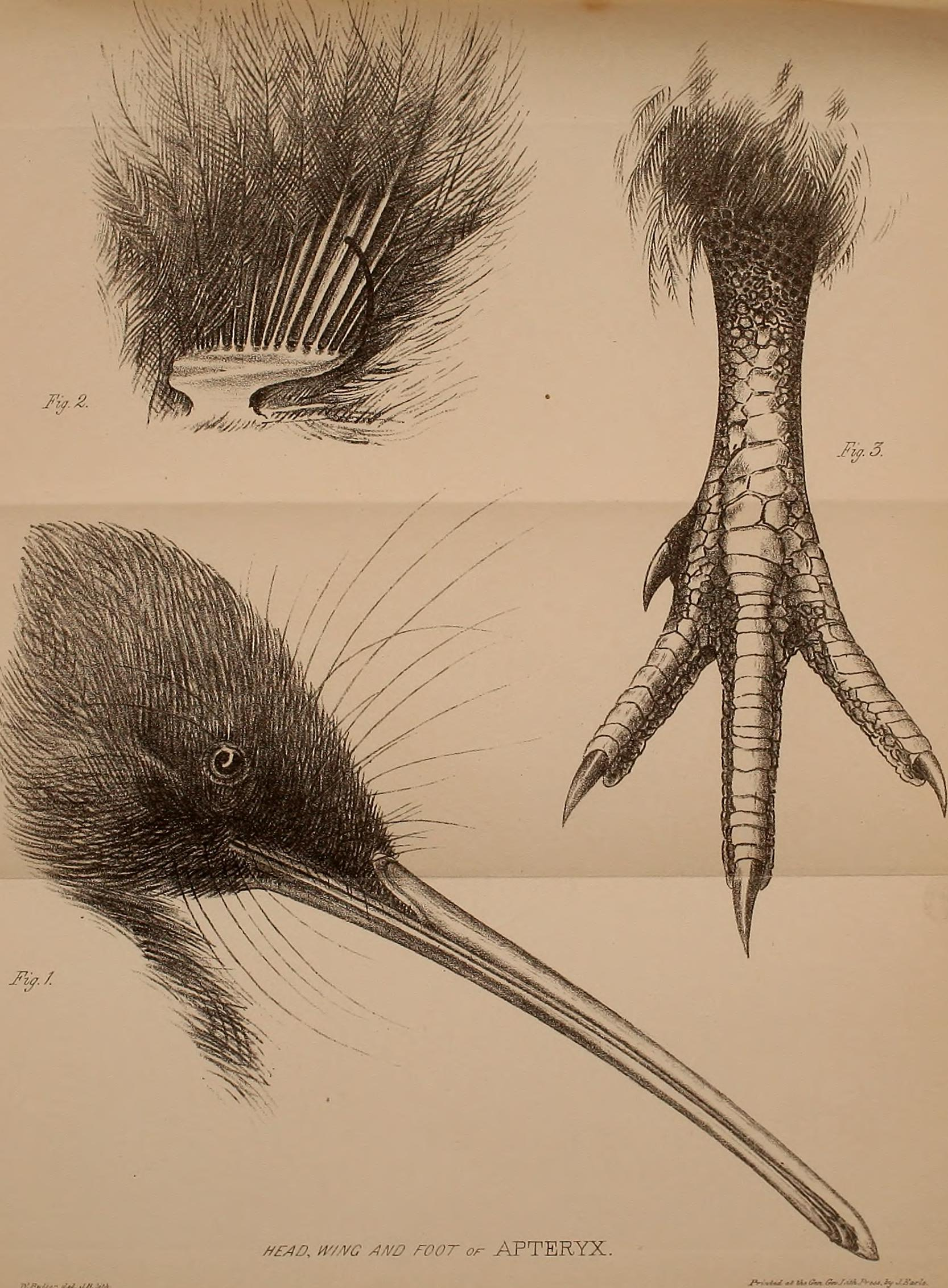 Title: Transactions and proceedings of the New Zealand Institute Year: 1868 (1860s) Authors: New Zealand Institute (Wellington, N.Z Subjects: Science Birds Publisher: Wellington : J. Hughes, Printer Text Appearing Before Image: ' Text Appearing After Image: M£/iD, n/.vc /i/VO FOOT Of APTERYX 53 the natural history of New Zealand. The characters which distinguish itfrom Shaws Ap. australis are,— its smaller size, its darker and more rufouscolour, its longer tarsus which is scutellated in front, its shorter toes andclaws which are horn coloured, its smaller wings Avhich have much strongerand thicker qnills ; and also in having long straggling hairs on the face. Mr. Bartlett stated further, that the Apteryx belonging to Dr. Mantellwas collected by his son, in Dusky Bay, whence the original bird, figured anddescribed by Dr. Shaw, was also obtained, and that so far as he had been ableto ascertain, all the known specimens of Aj). Mantelli were from the NorthIsland. In a Report on the present state of our Knowledge of the Species ofApteryx, by Drs. Sclater and Hochstetter, read at a meeting of the BritishAssociation, in September, 1861, and published for genei*al information in theNew Zealand Gazette, in May, 1862, the following observation